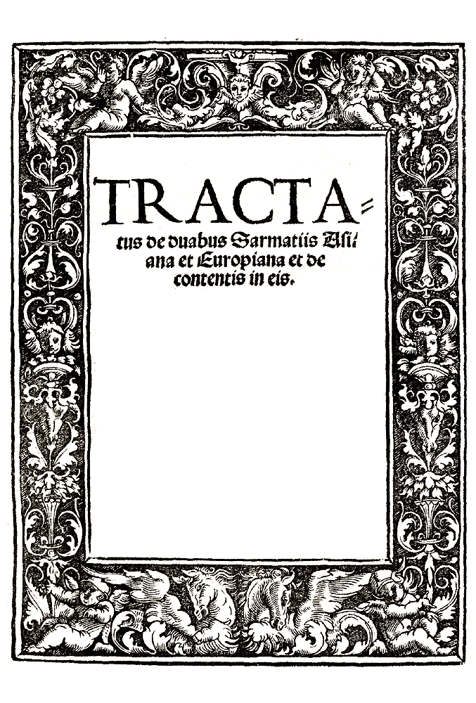 Title page of "Treatise on the Two Sarmatias" (Tractatus de duabus Sarmatiis), 1518